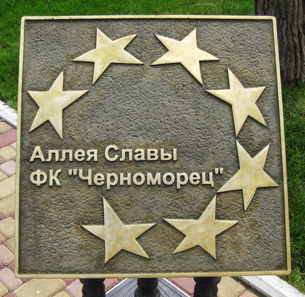 FC Chernomorets Odessa walk of fame commemorative table